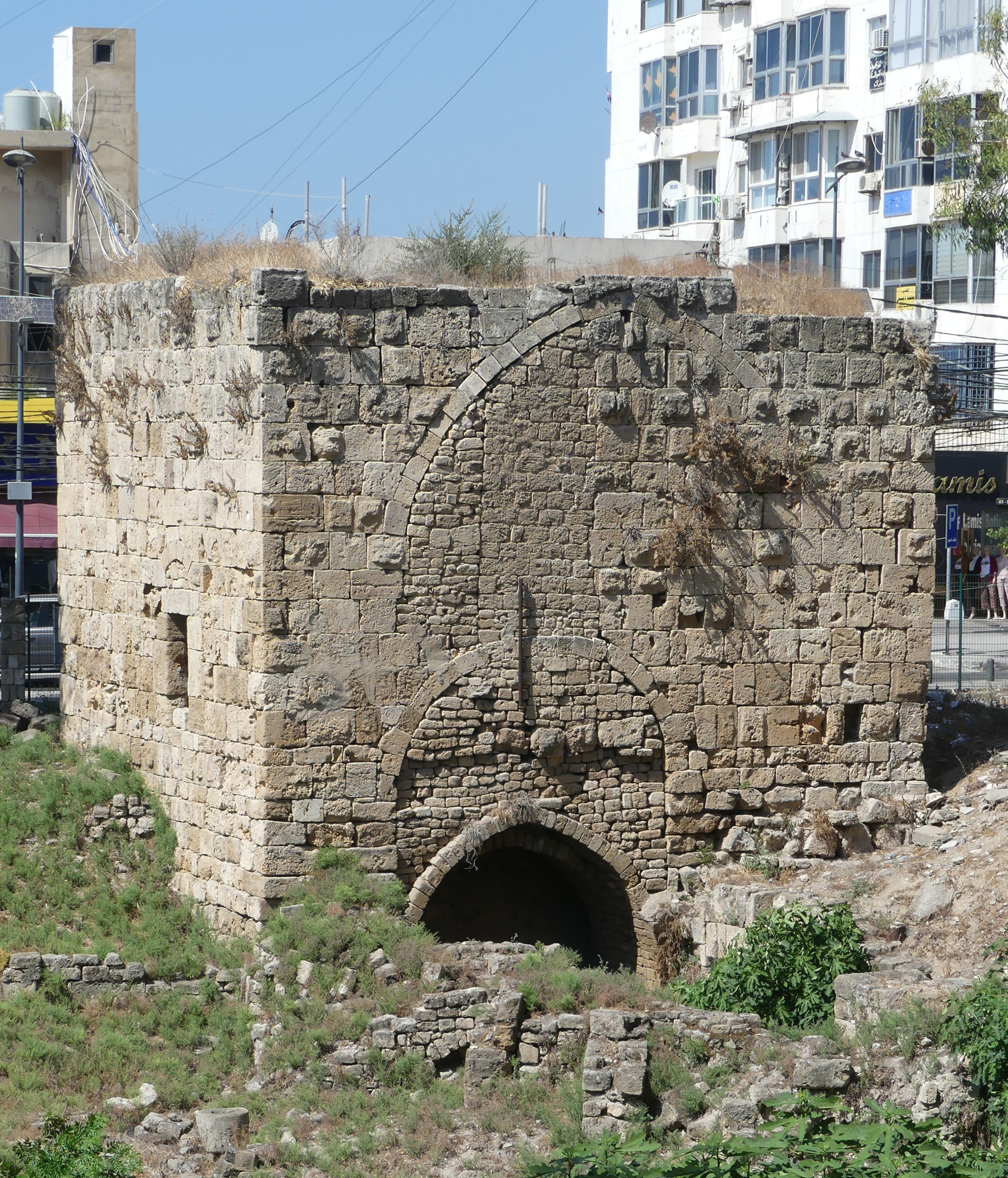 The water spring of Ain Sur ("Source of Tyre"), which is also known as Ain Hiram, named after the Phoenician king. According to some sources, Jesus Christ sat here with John on a rock drinking water during their visit to Tyre/Sour. It later became a place of pilgrimage for Crusaders and was covered with a tower that is still standing in downtown Tyre.